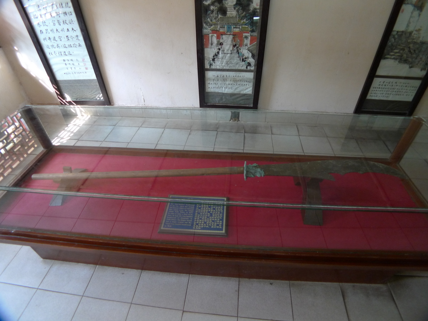 Wu Saangui broadsword